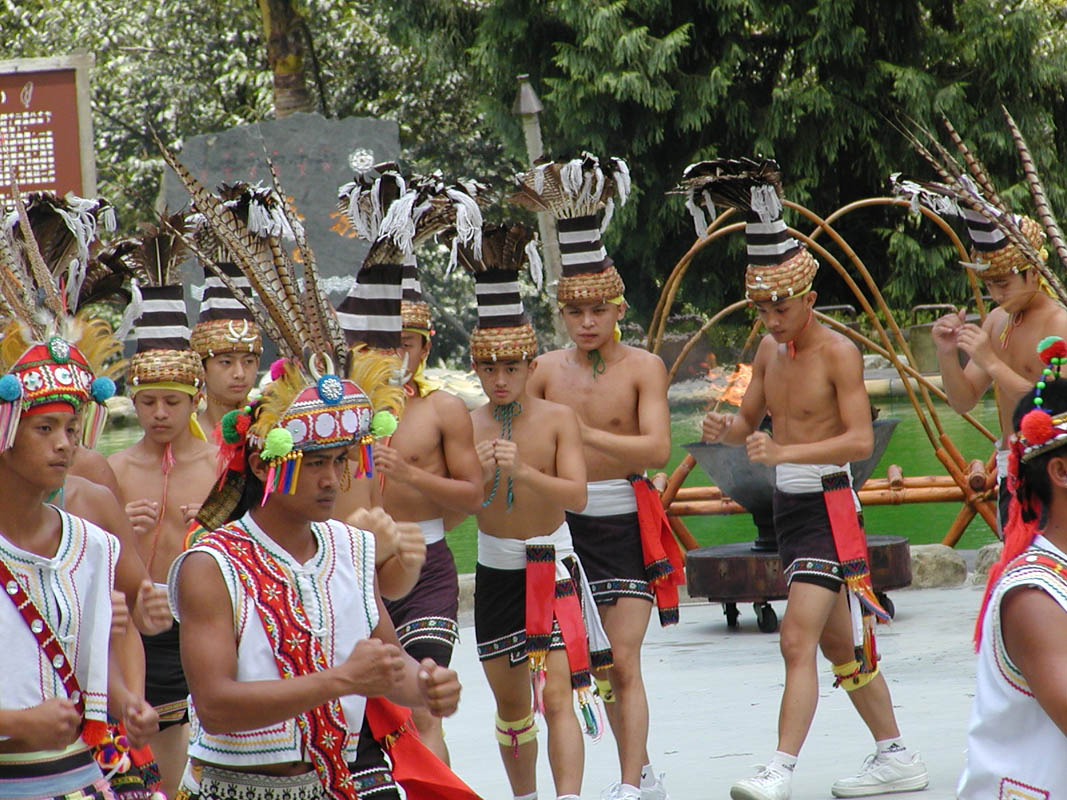 Formosan Aboriginal Culture Village